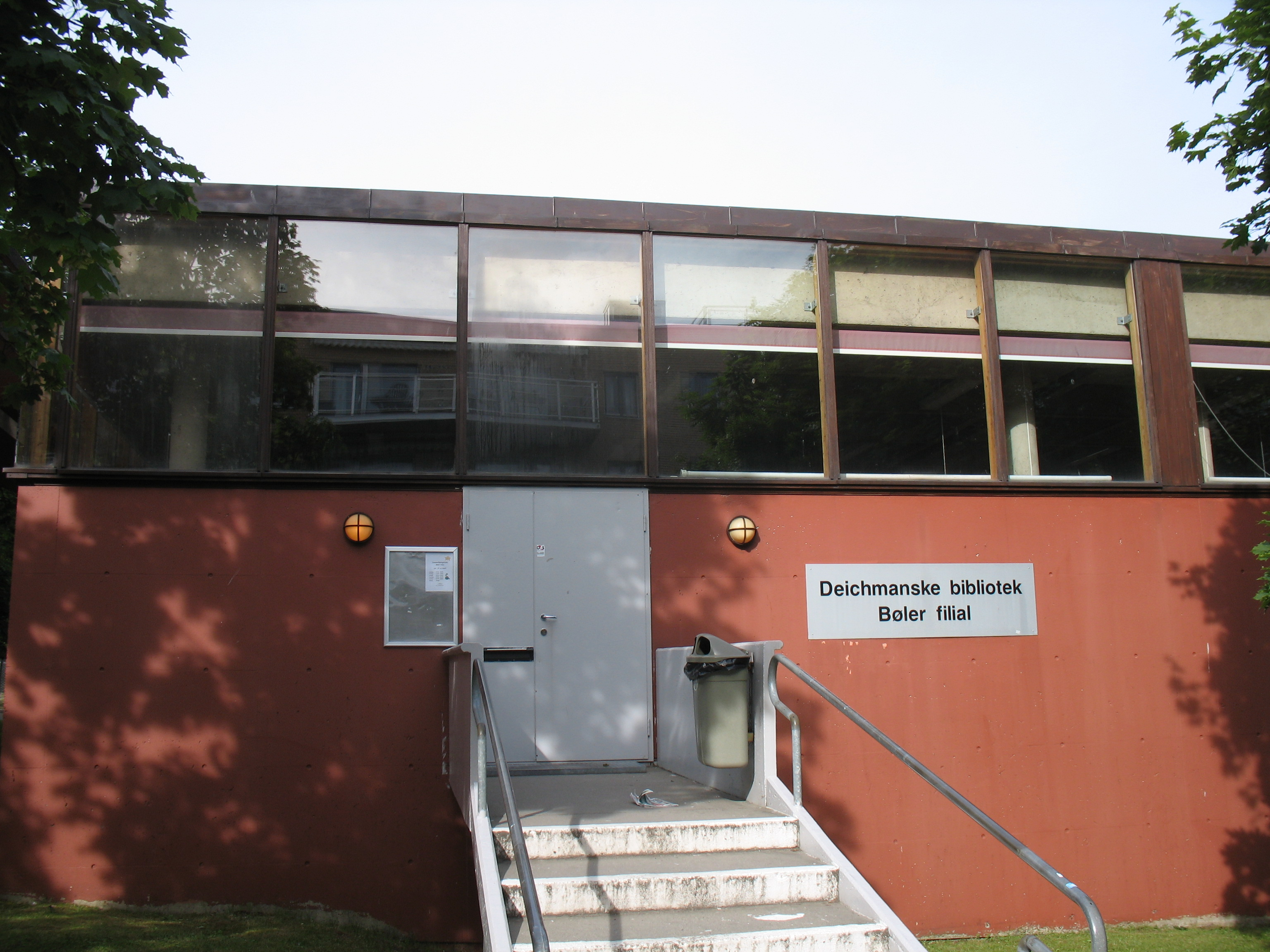 The public library of Bøler, Oslo, Norway.